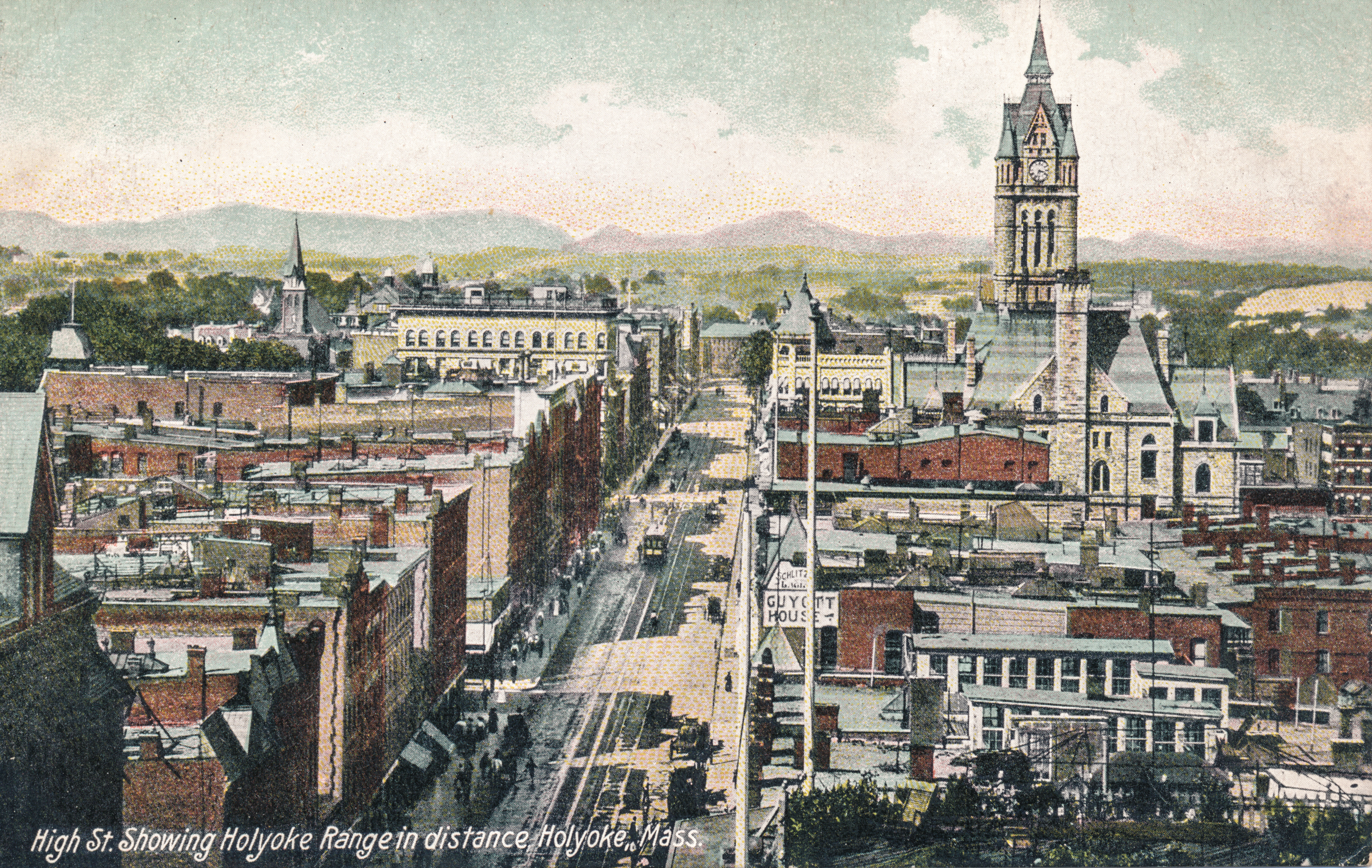 An early postcard with am image of High Street in Holyoke, Massachusetts.